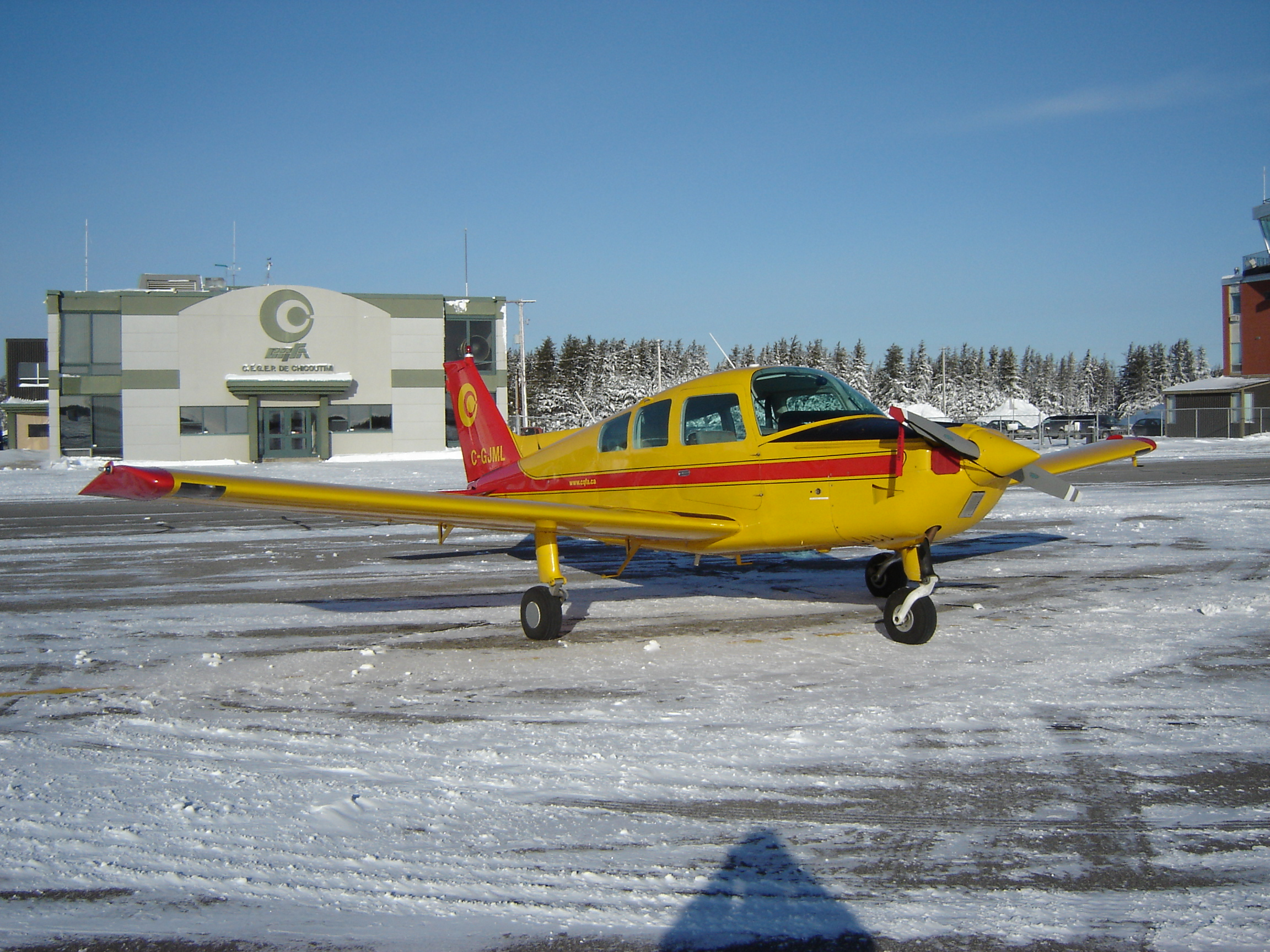 Beechcraft Sundowner belonging to the Chicoutimi College, on the ramp at St-Honoré airport (CYRC). This training airplane is used by second year students working on their PPL and third year students in the multi-engine and floatplane specialties.